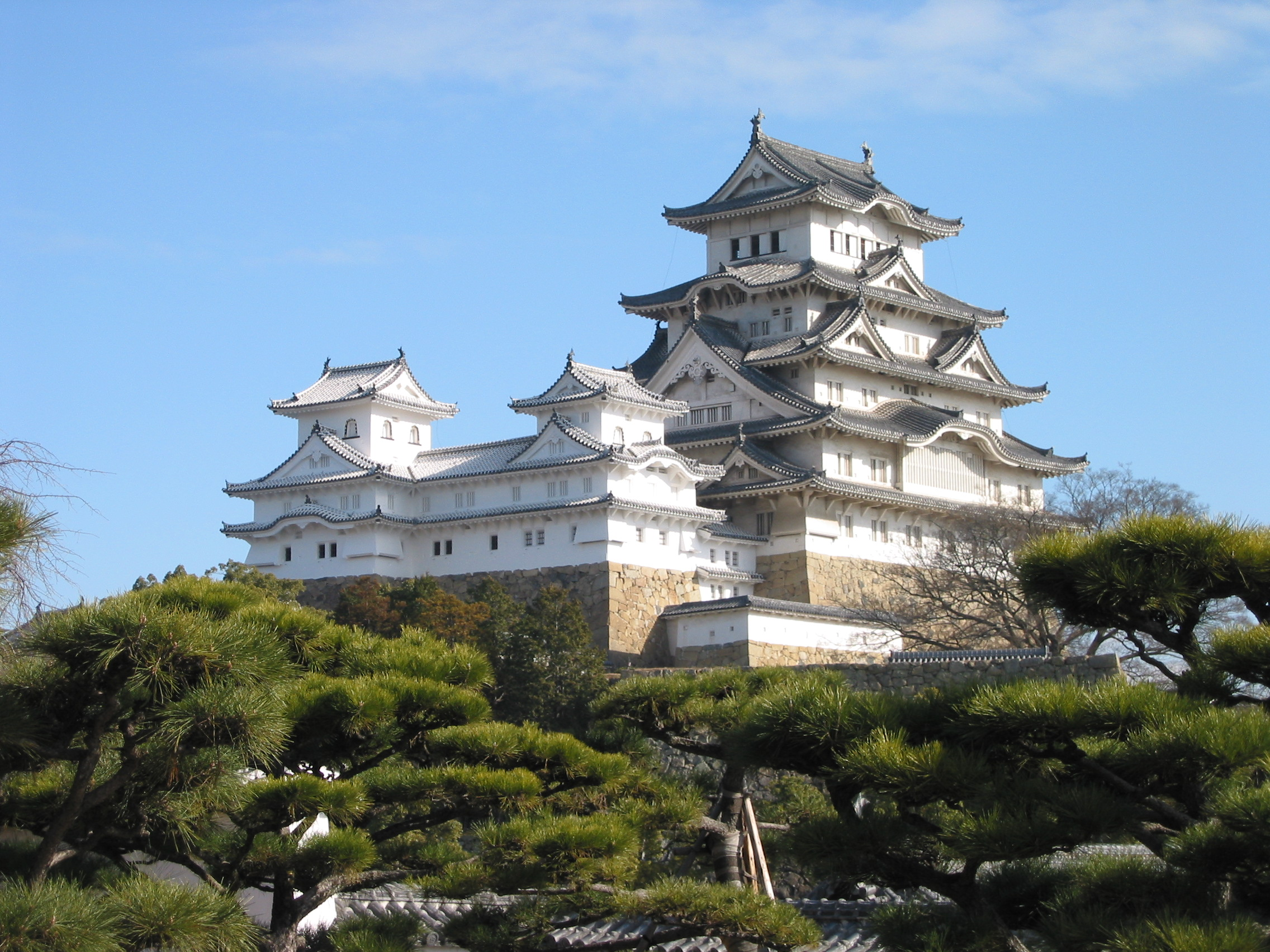 photo of Himeji Castle The Keep Towers(view from Nisi-no-maru)